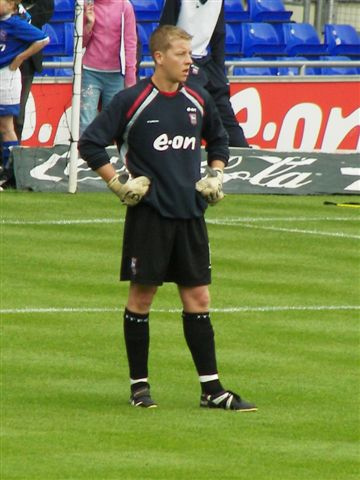 Shane Supple